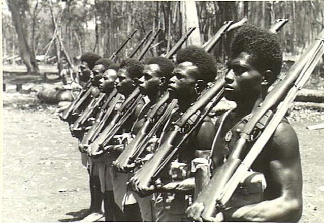 Members of the Papuan Infantry Battalion around the Song River, March 1944